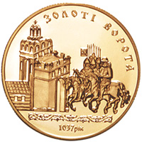 Coin of Ukraine